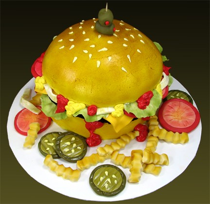 Cakes can be molded, sculpted and decorated to resemble just about anything, even a cheeseburger! Photo by Michael Prudhomme.